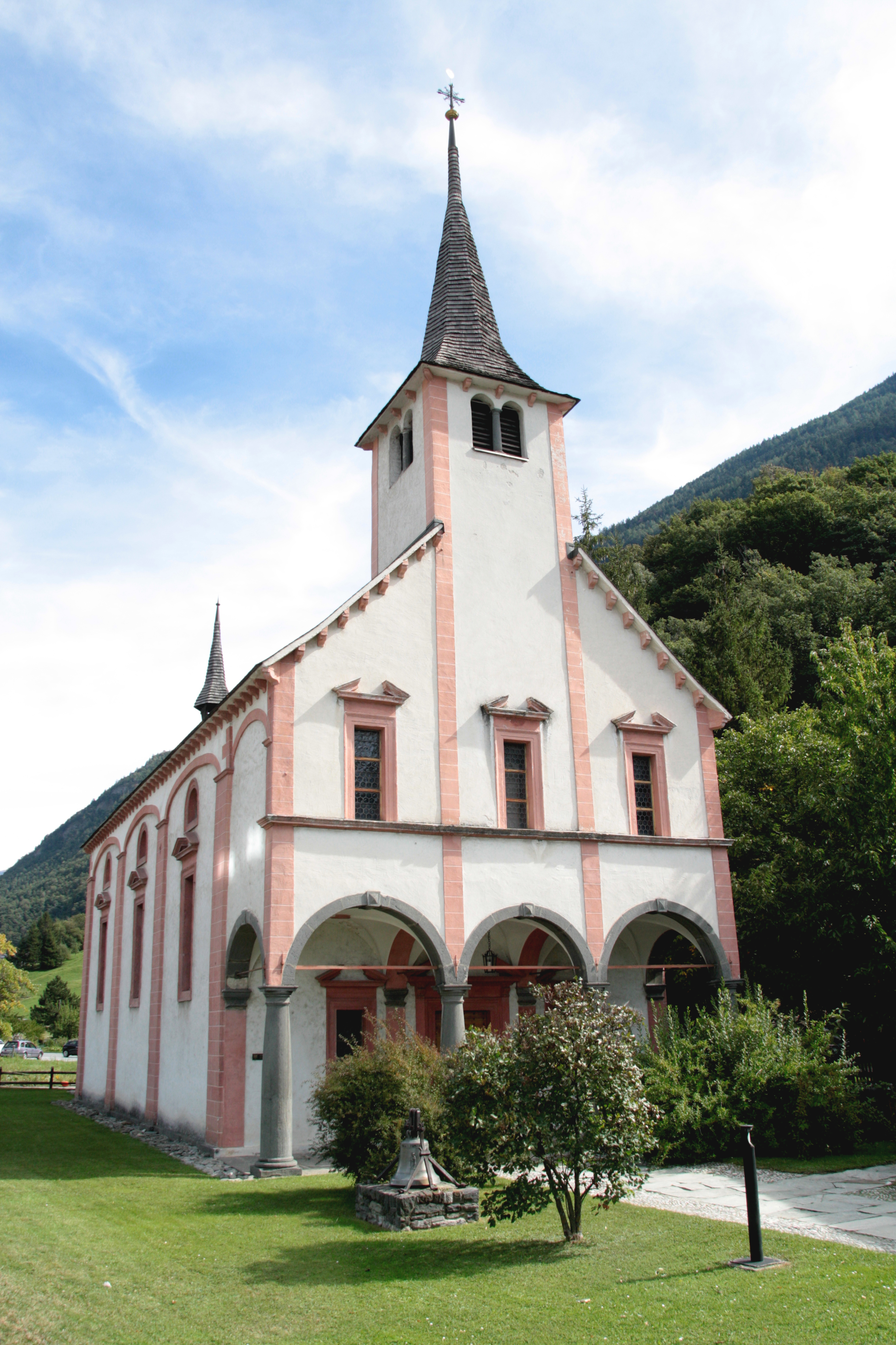 Kapelle Mariä Himmelfahrt Eyholz